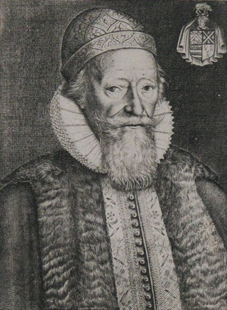 The lively Portraiture of Sir William Wadd, late Lieutenant of the Tower, unsigned engraving after a 17th century portrait, "Published June 1st 1798 by W. Richardson York House No. 31 Strand"